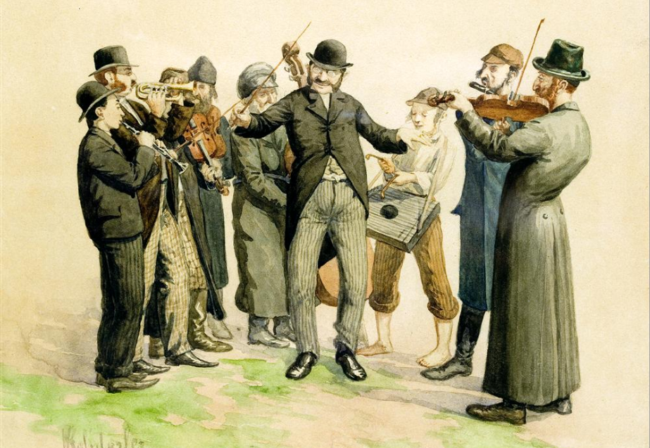 Kapela Żydowska (Jewish band). Watercolor. The young boy (3rd from right) plays a tsimbl.